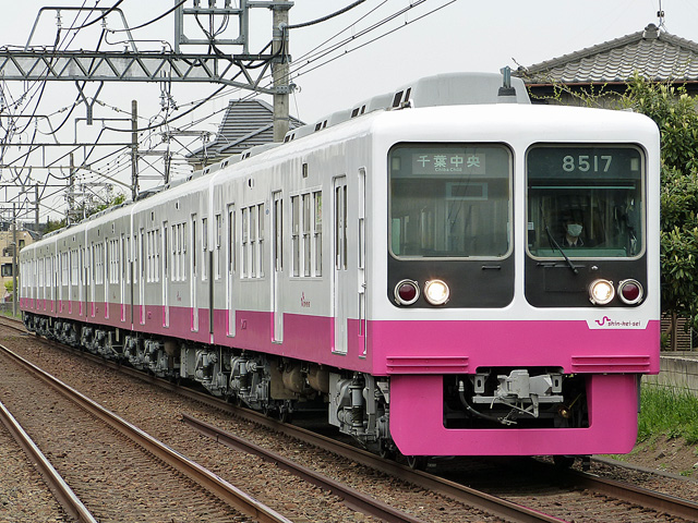 Shin-Keisei 8000 series EMU set 8518 in revised corporate livery